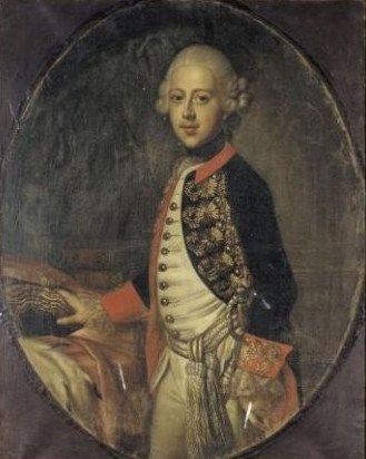 Portrait of Leopold of Brunswick-Wolfenbüttel (1752-1787), brother of Duke Karl II. of Brunswick